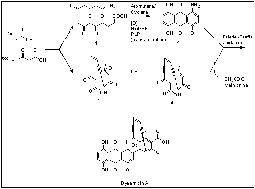 Dynemicin A